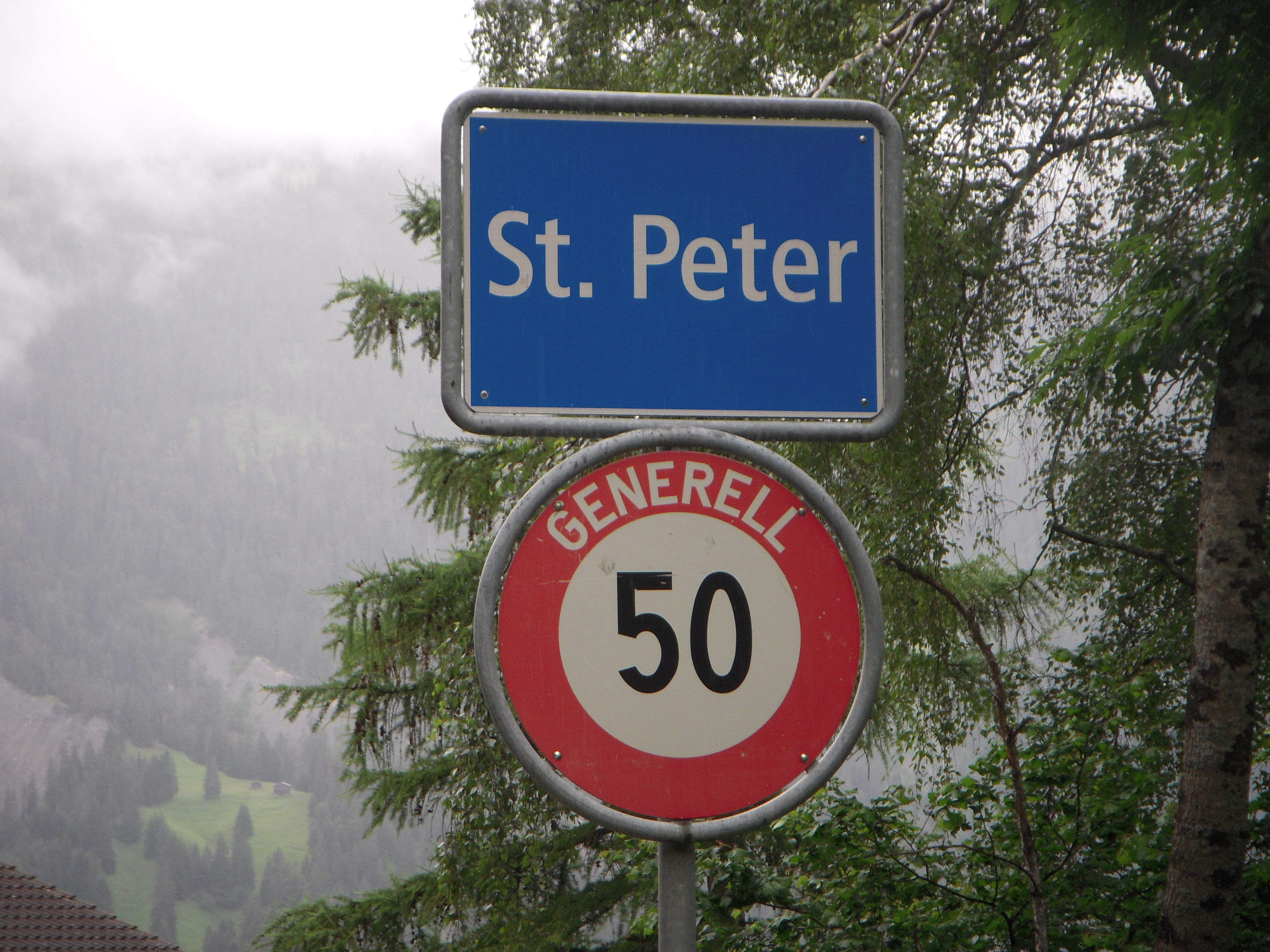 St. Peter sign, outside the village St. Peter in Graubünden, Schwitzerland, June 2009.